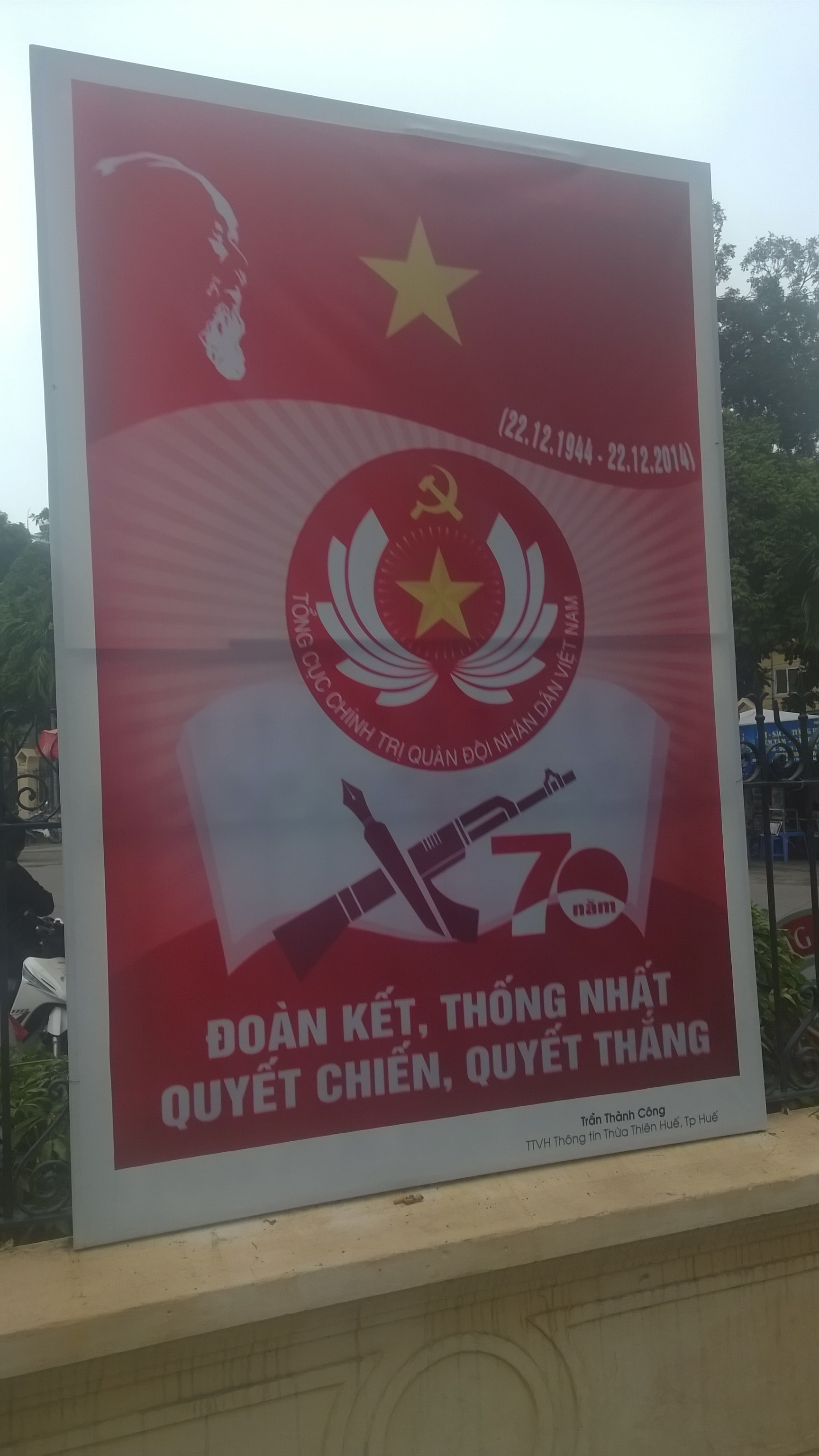 A military Communist poster celebrating the Communist Party of Viet-Nam's military. This specific poster represents the close relationships between the North-Viet-Namese Labour Party and their armed wing, in a common struggle against the French.